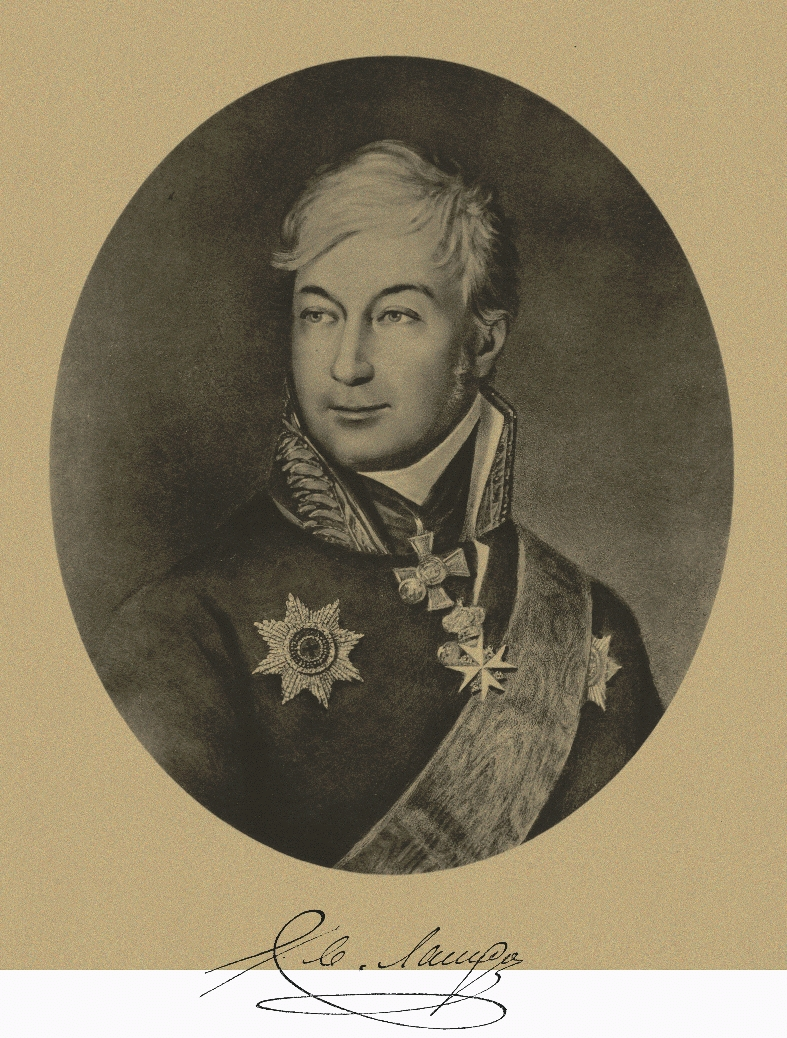 Lanskoy_Vasily_Sergeevich (1753-1831), Ministr of Russia